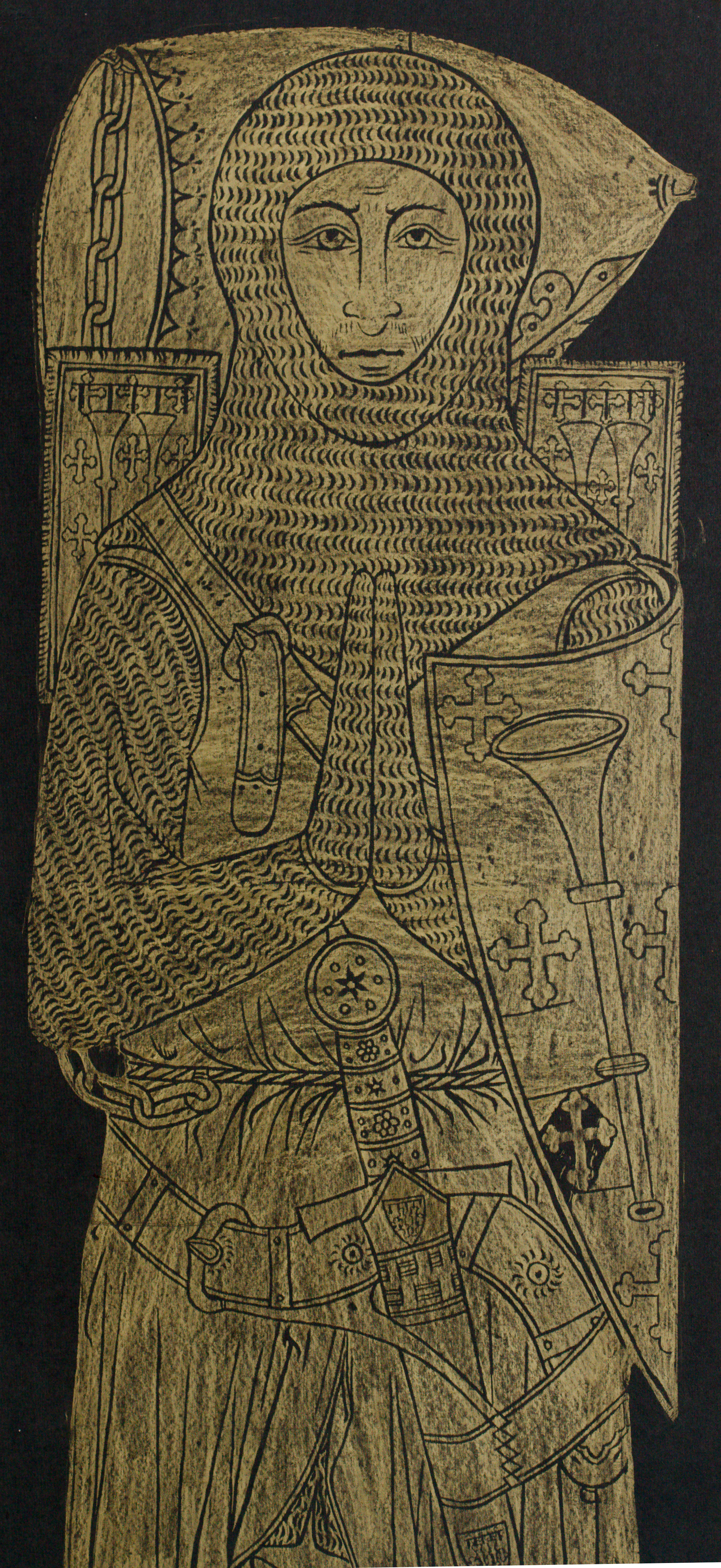 Rubbing of the monumental brass of Sir Roger de Trumpington in the parish church of Saints Mary and Michael in Trumpington, Cambridge, England. The rubbing was made by my mother in 1971 or 72. Gold colored wax on black paper, mounted on masonite.